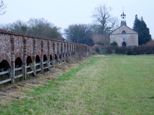 Maud Heath's Causeway, Kellaways Now almost part of the folklore of this area, Maud Heath lived in medieval times, and in 1474 made a bequest of land in order to build and maintain a causeway through the Avon marshes to Chippenham. Fragments of this causeway are still visible, principally at Kellaways. The image shows just a few of the sixty four arches that carry the causeway along the lowest stretch of its 4.5 mile length. The image is taken from the field beside the structure and the church is that of St Giles.